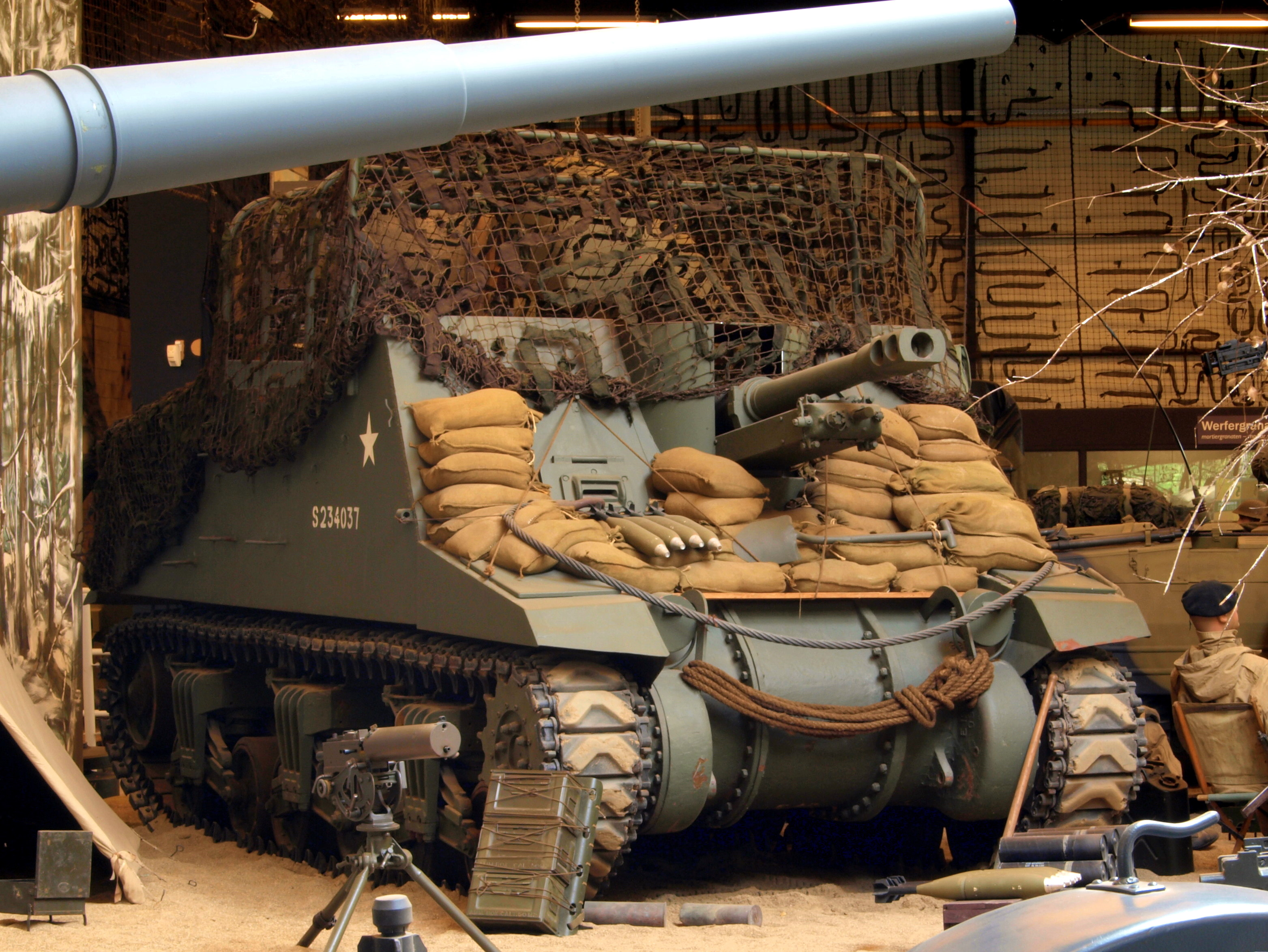 Photographed at the Marshallmuseum - Liberty Park - Oorlogsmuseum Overloon, The Netherlands. OLYMPUS DIGITAL CAMERA